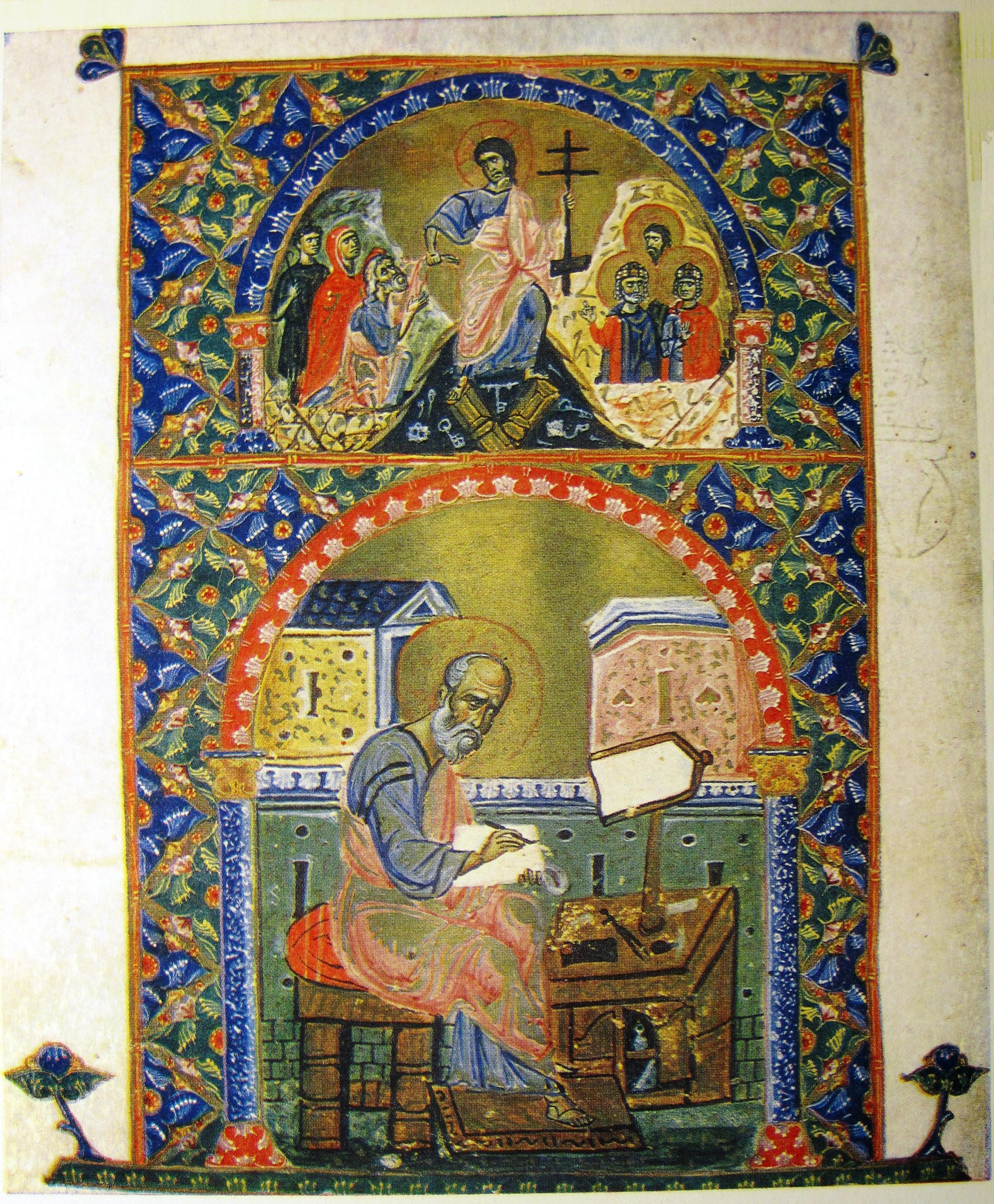 1) The Descent into Hell. John the Evangelist; 2) John the Evangelist. A folio from the Vani Gospels, MSS A-1335, 210v. National Center of Manuscripts, Tbilisi, Georgia